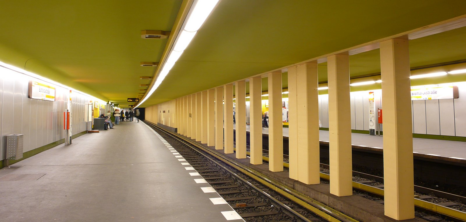 Subway Bismarckstr U2 Berlin